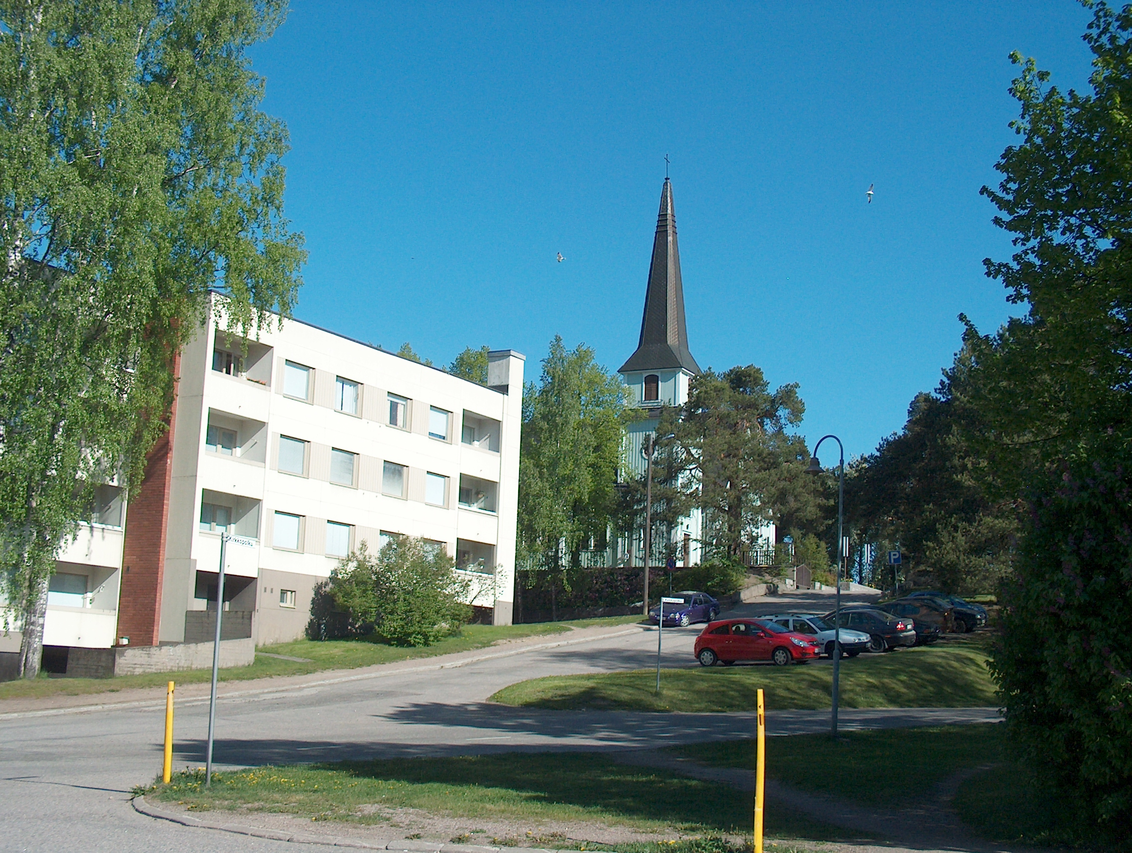 View towards Keskuskirkko Church in Riihimäki, Finland